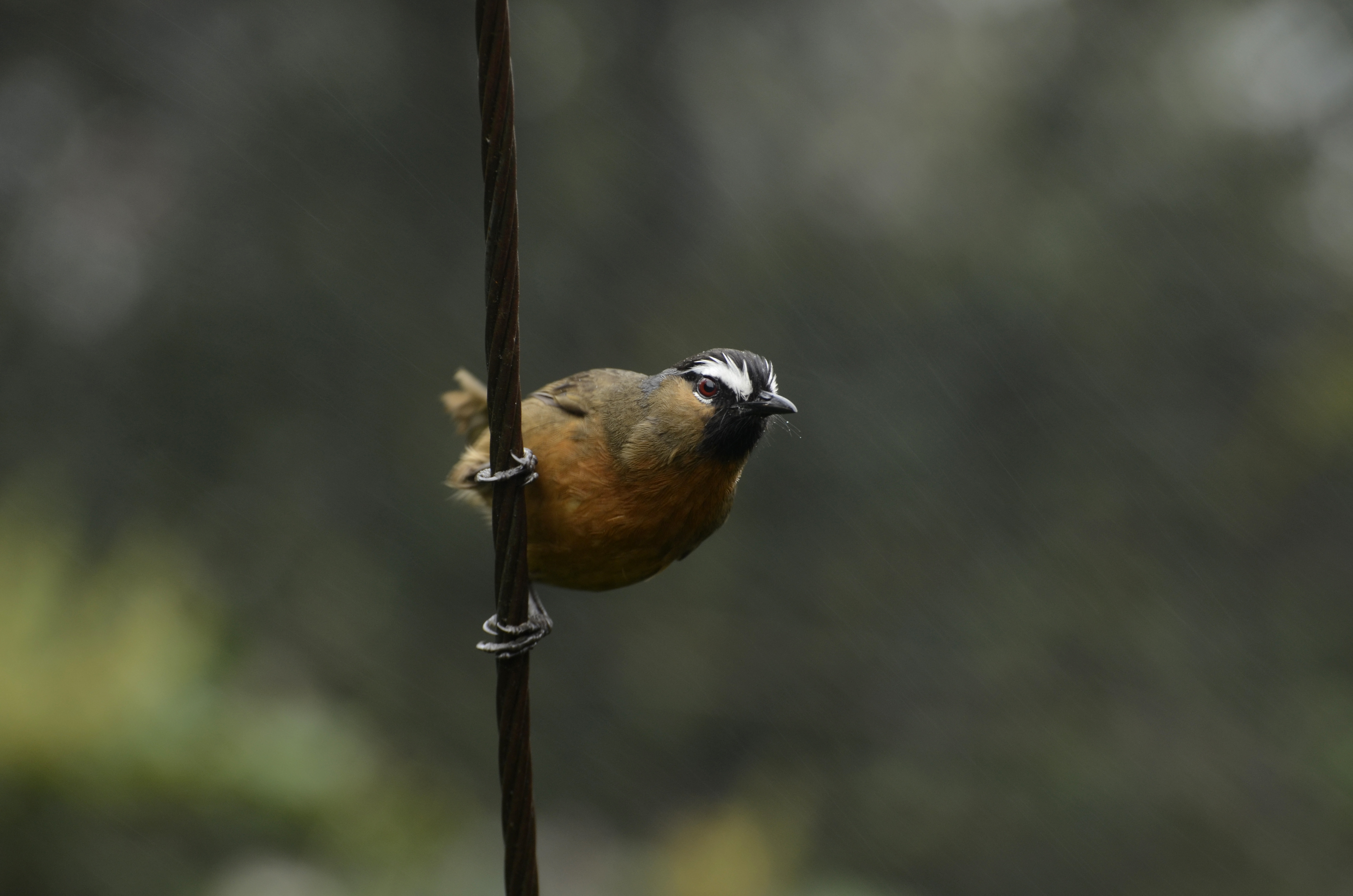 Black-chinned laughingthrush (Trochalopteron cachinnans) from Ooty